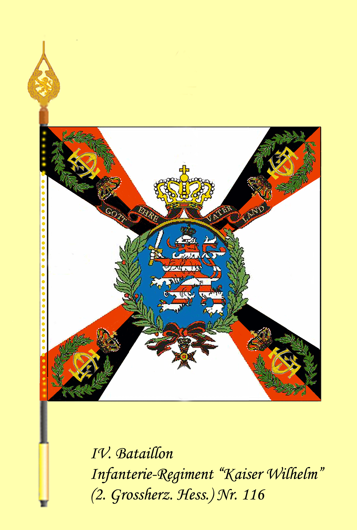 Colors of the IV. Battalion of the Grand Duke of Hesse's 116th Regiment of Infantry in the prussian army